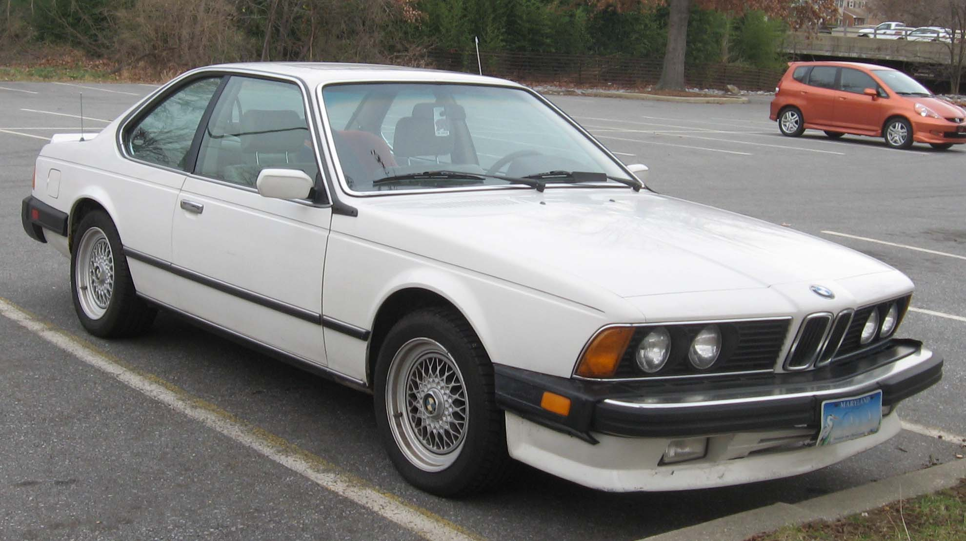 BMW 6-Series photographed in College Park, Maryland, USA.